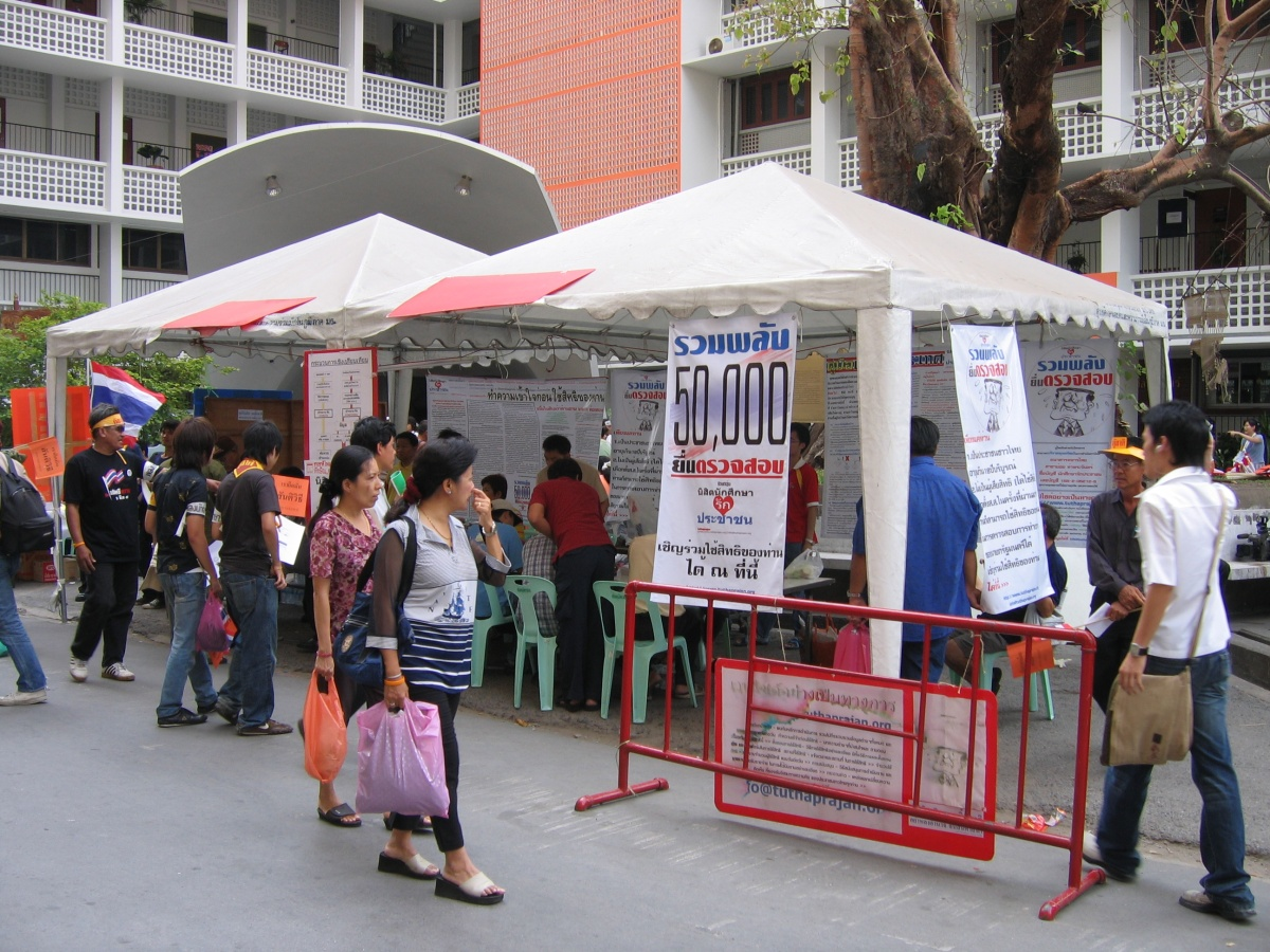 The booth to collect signature for petition against Thaksin Shinawatra at Thammasat University, Bangkok, Thailand.